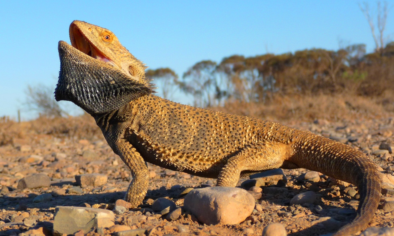 Central Bearded Dragon (Pogona vitticeps), Parachilna, South Australia, Australia